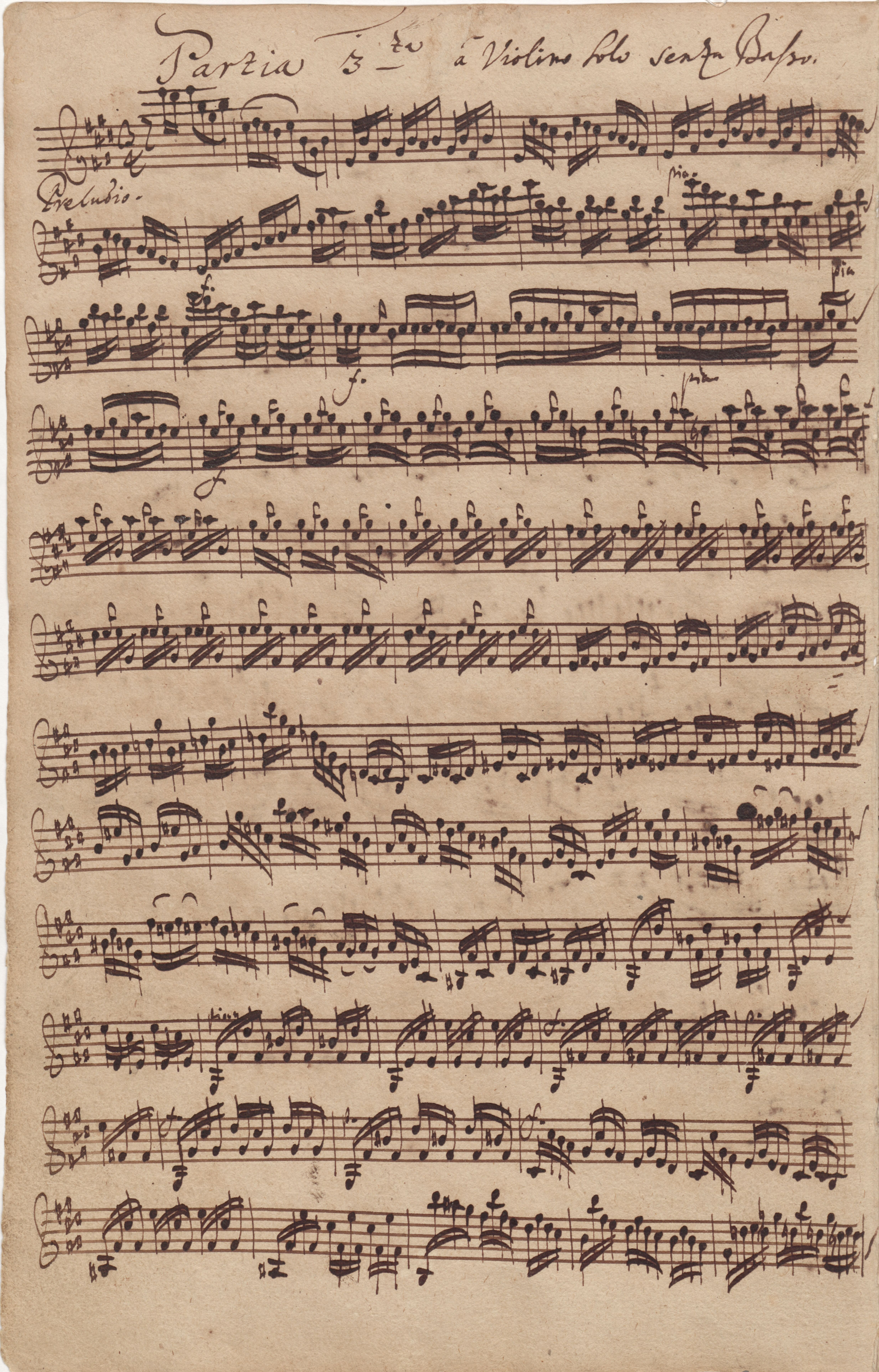 First page of opening preludio from the partita for solo violin, BWV 1006, by J.S. Bach, autograph manuscript. High resolution image: please use zoom button to choose different levels of magnification.